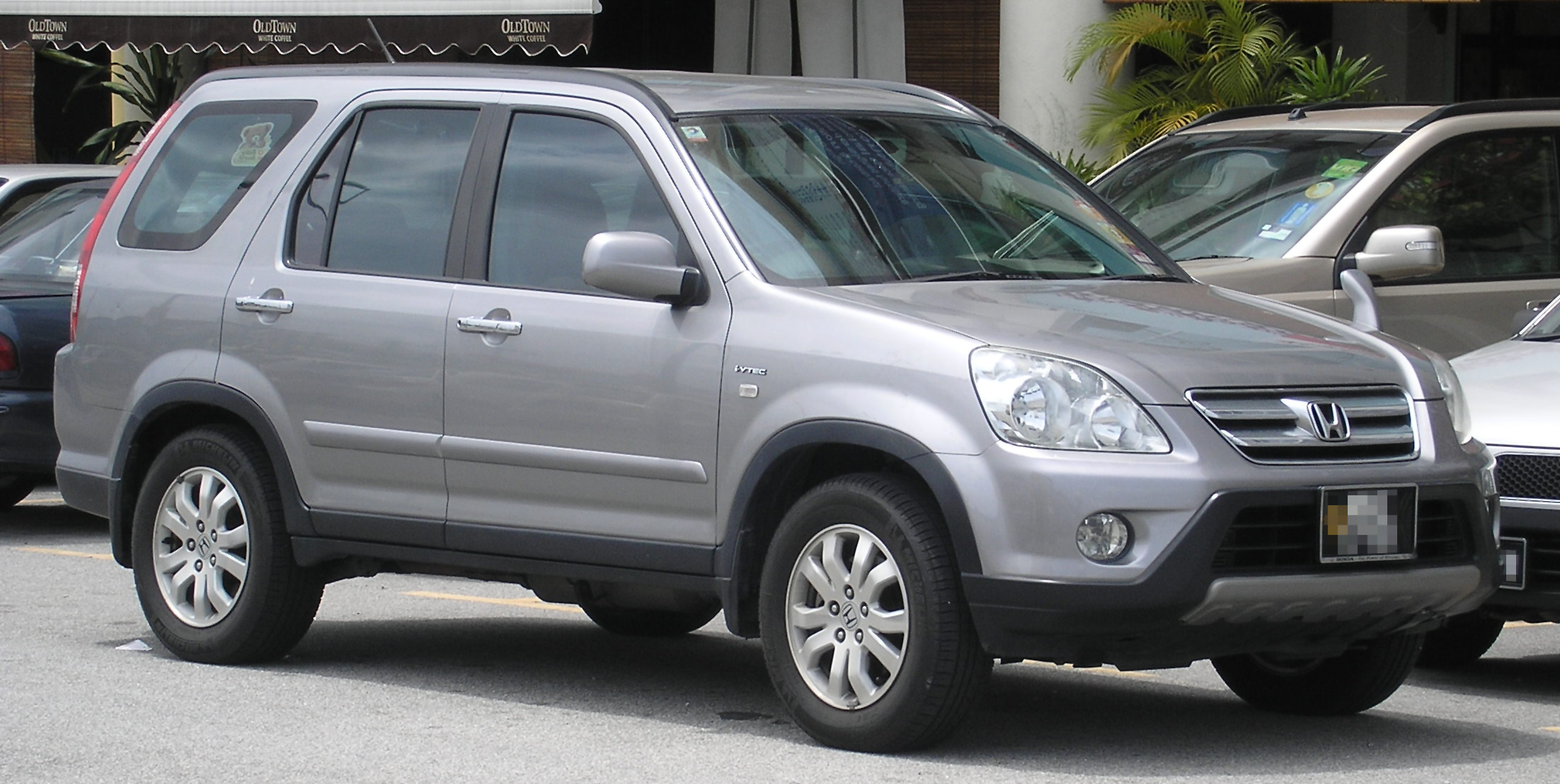 Front-side shot of a second generation, first facelift Honda CR-V, in Serdang, Selangor, Malaysia.